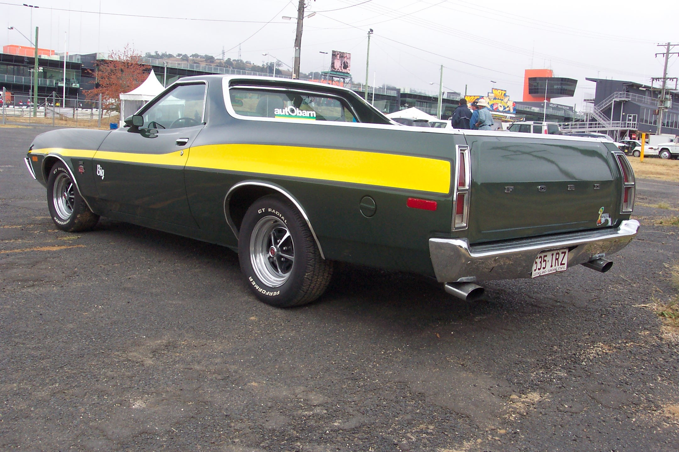 1972 Ford Ranchero GT ute. This one is powered by the 429 cubic inch big block V8. Taken in the carpark at the inaugural Bathurst International Motor Fest 2006, held at Mount Panorama Bathurst.